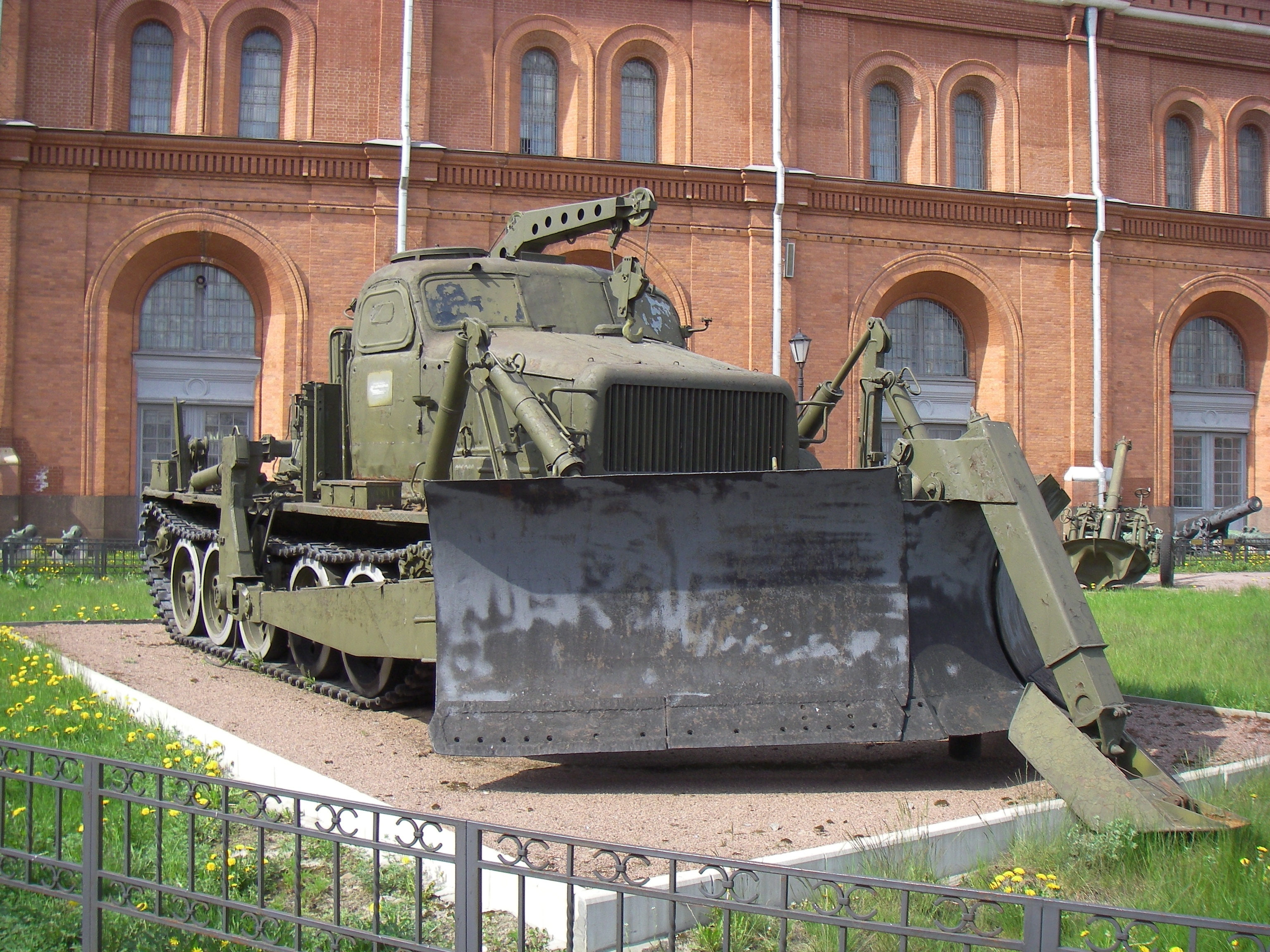 Counter Obstacle Vehicle BAT-M on permanent display in the front yard of Saint Petersburg Artillery Museum (in full: Military Historical Museum of Artillery, Engineers and Signal Corps]